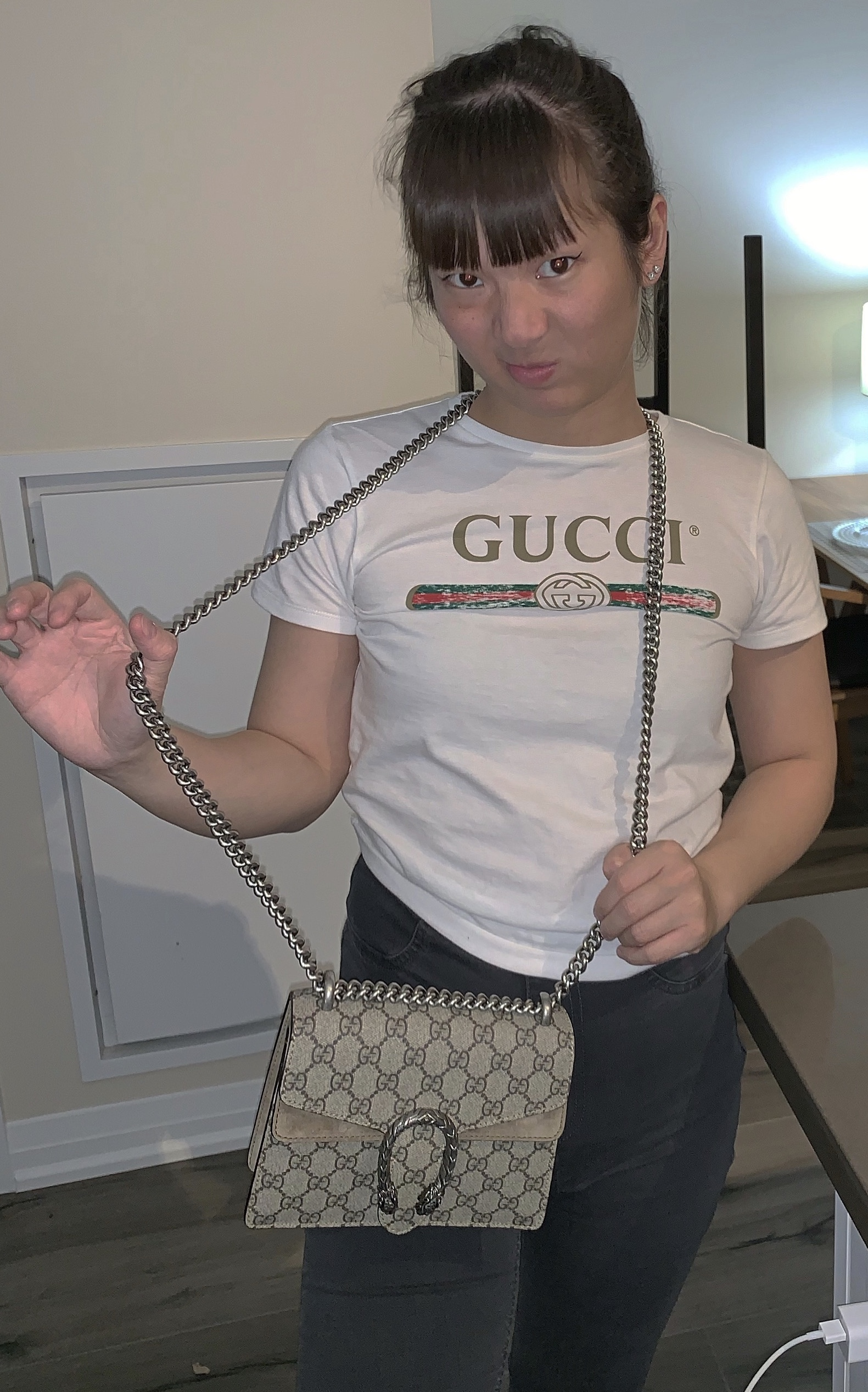 Adrienne Wu in 2019